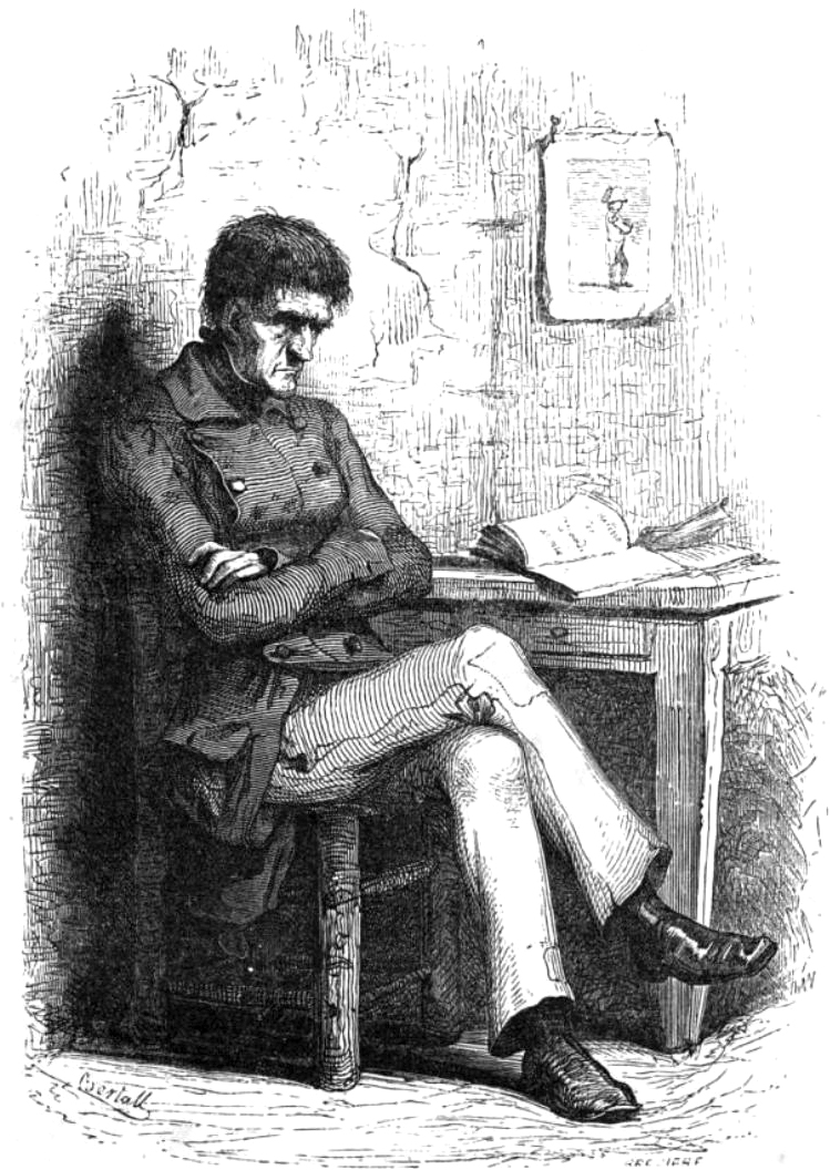 Illustration of Honoré de Balzac's Le Colonel Chabert (1832).